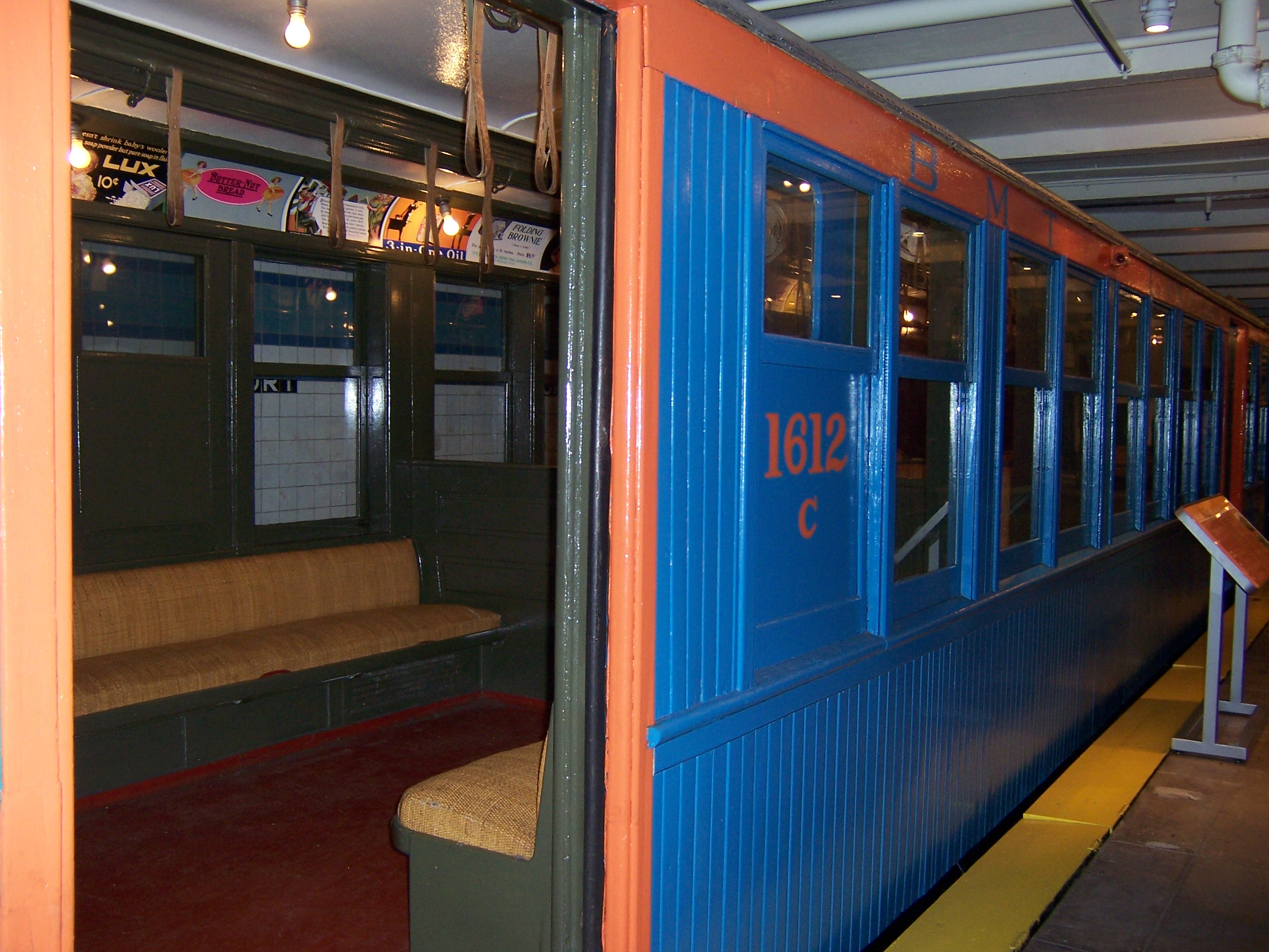 BMT Q-type el car #1612 at the New York Transit Museum. These cars were originally built as gate cars in 1903 and underwent modernization in 1938 when the open-ended platforms were removed and multi-unit door control (MUDC) was added.